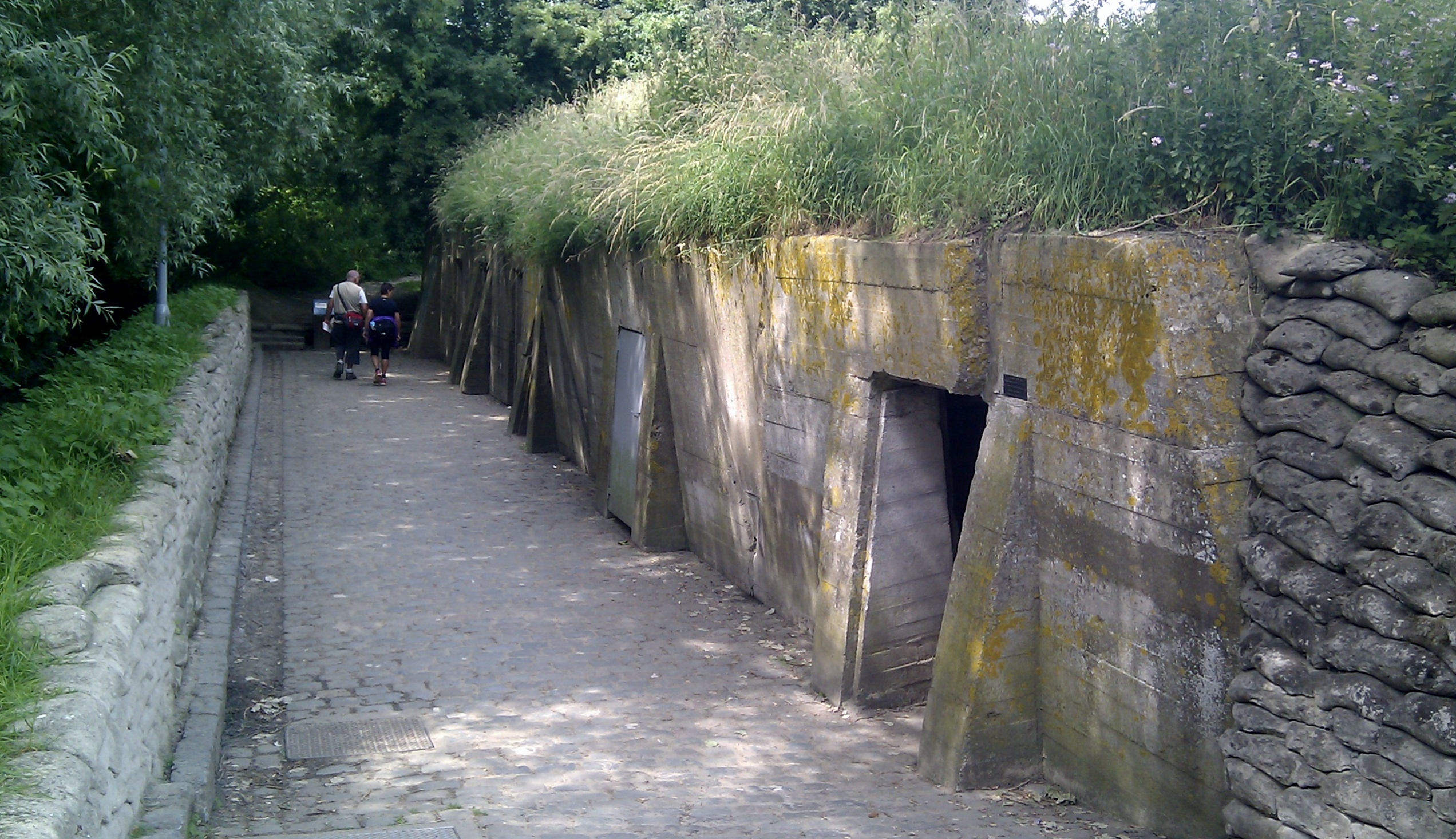 Essex Farm WWI Field Dressing Station, Ypres/Ieper, Flanders, Belgium.